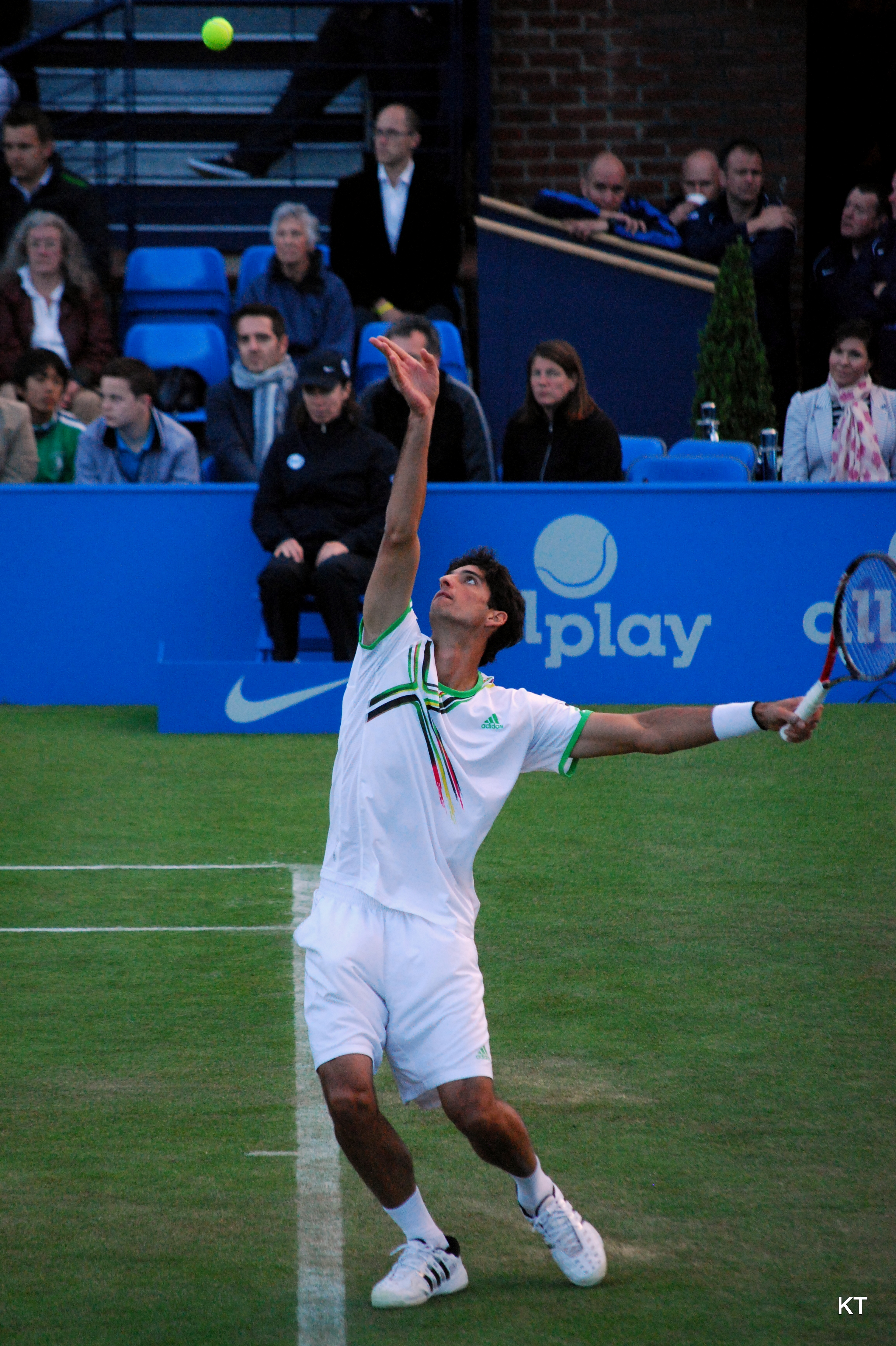 Thomaz Bellucci playing at 2011 Queen's Club Championships